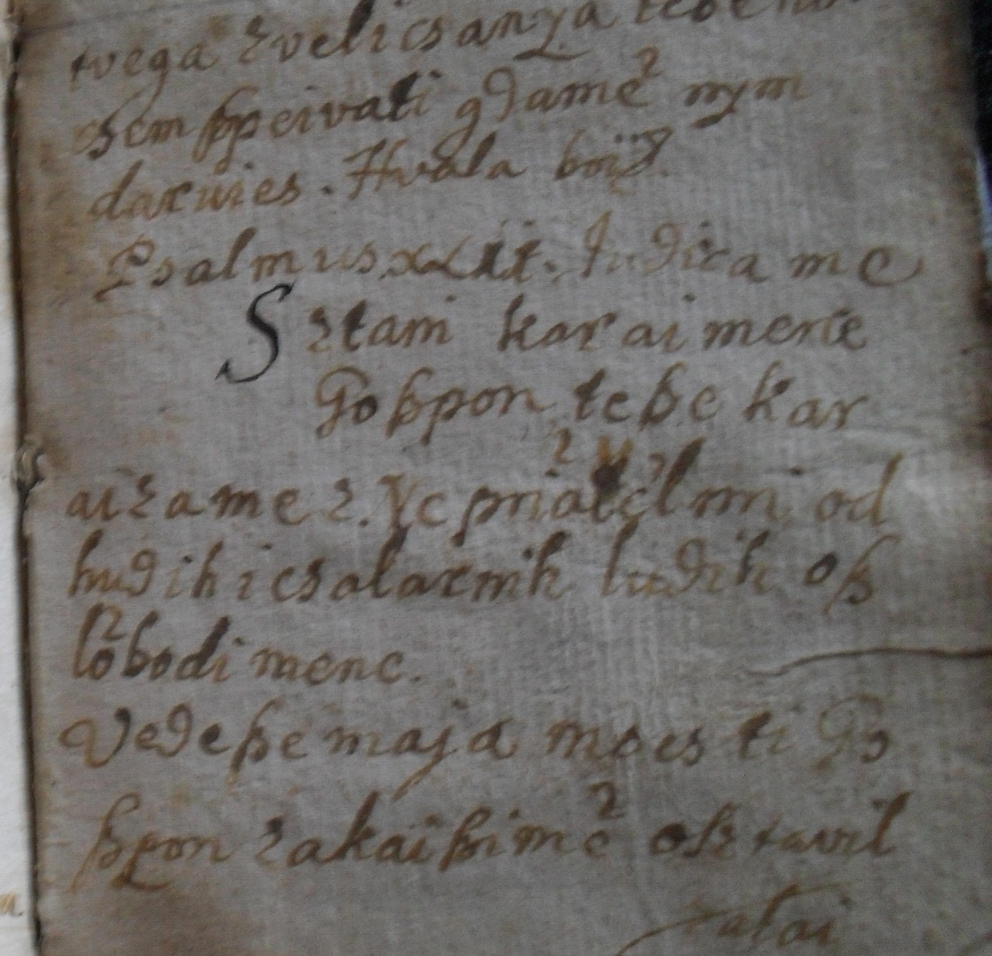 XLII. Psalm in Prekmurian language (Second book of the Old hymnal of Martjanci), transcription from Kajkavian language.